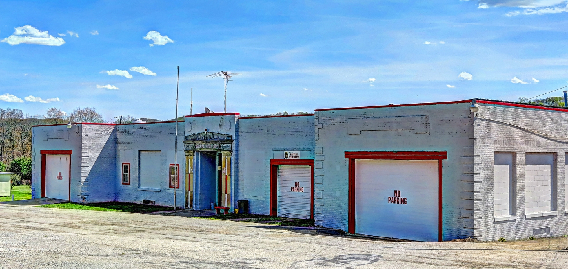 Now the Morgan Township Fire Department, an up-to-date facility with a helicopter port. We saw it along Big Bear Creek Road in Scioto County, Ohio. The structure was built in 1936.